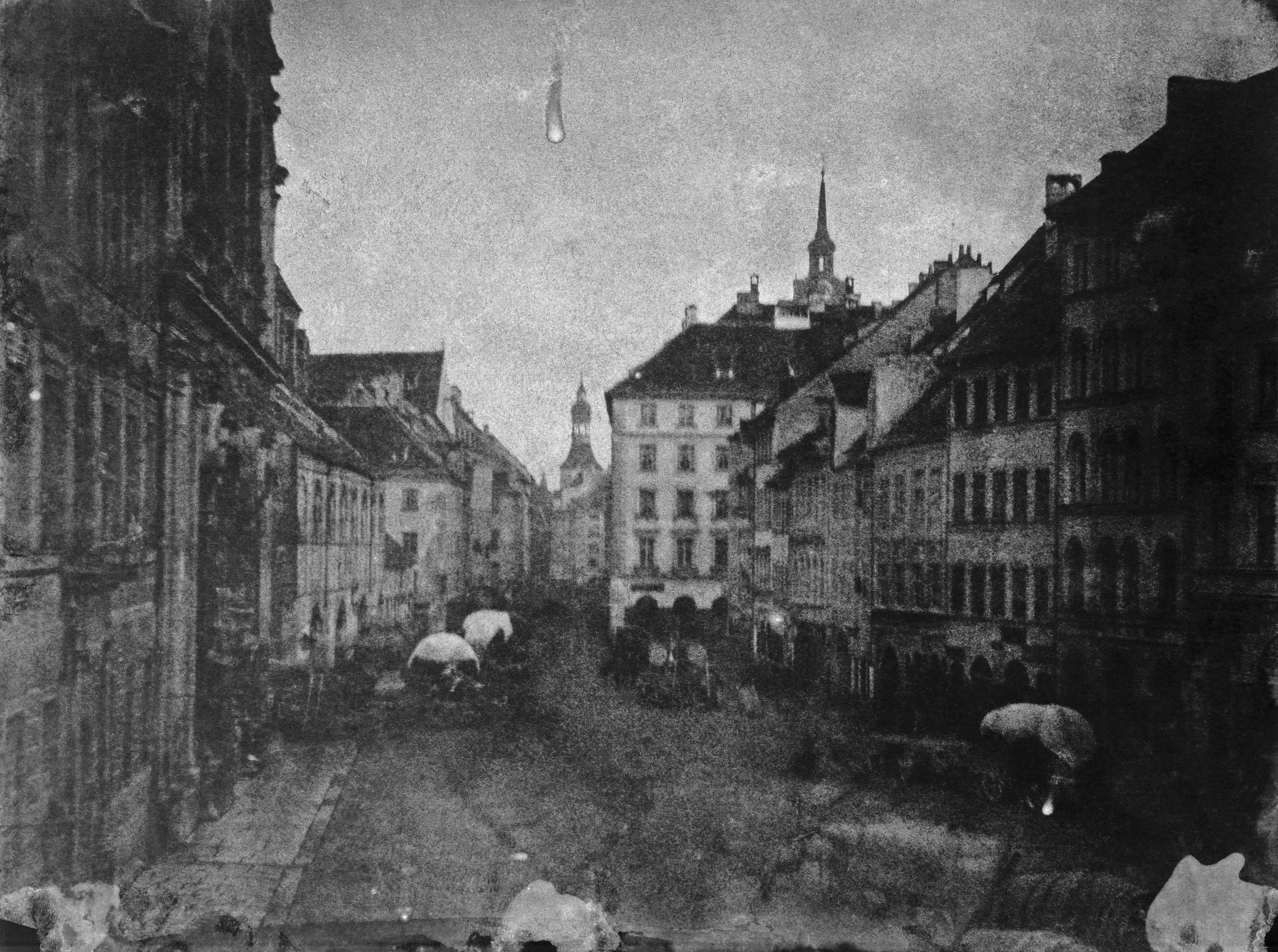 A (pre-)daguerreotype incunable of photography: Steinheil's and von Kobell's picture of Munich's Neuhauser Straße with St. Michael's Church on the left side. This photograph was taken in July 1839 on silver chloride paper.